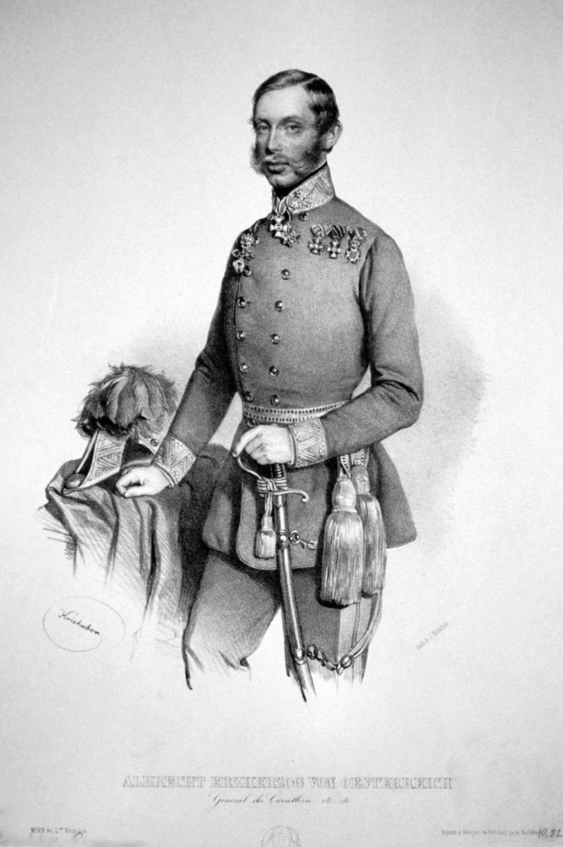 Archduke Albert, Duke of Teschen